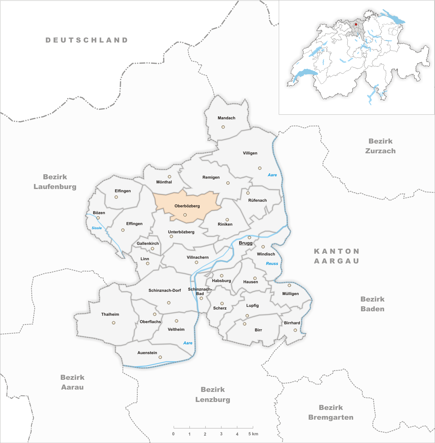 Municipality Oberbözberg